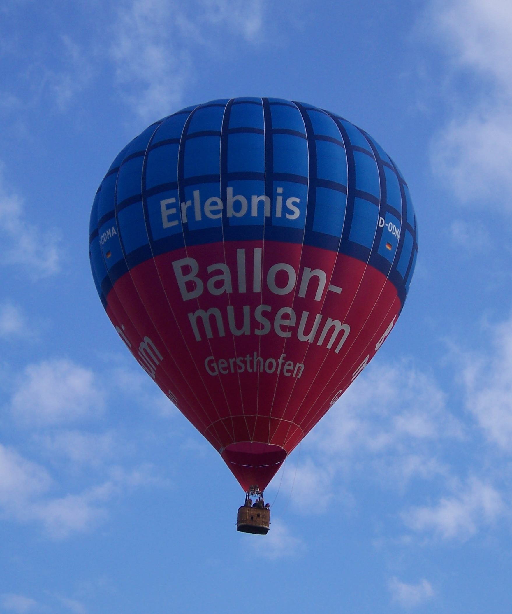 Ballon Ballonmuseum